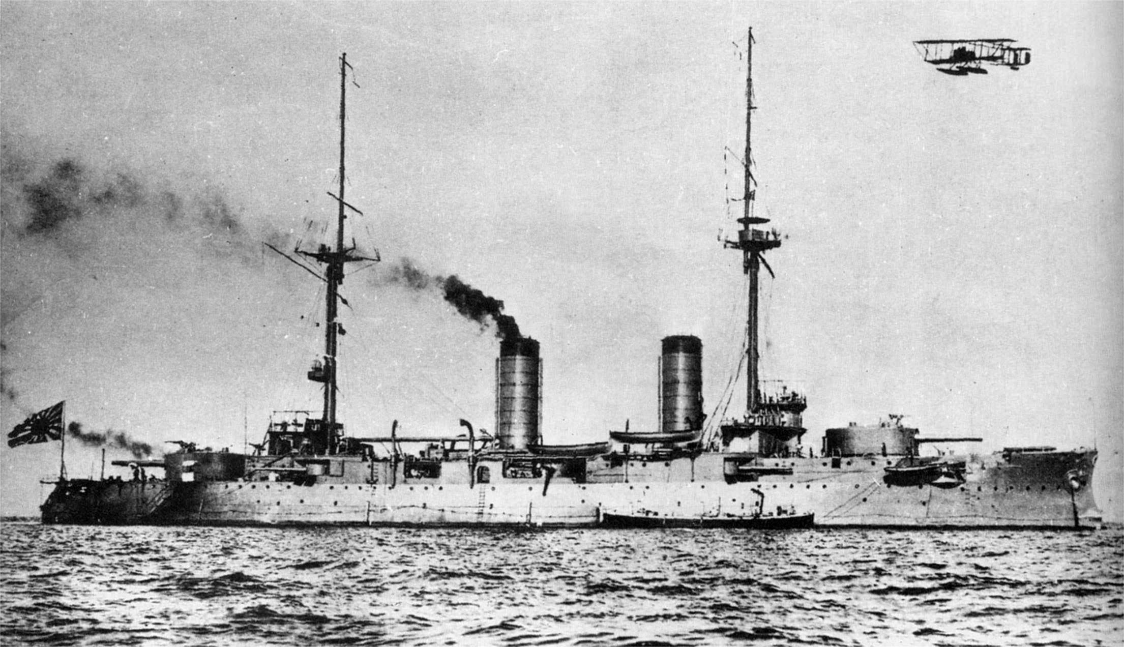 Imperial Japanese battleship Iwami.